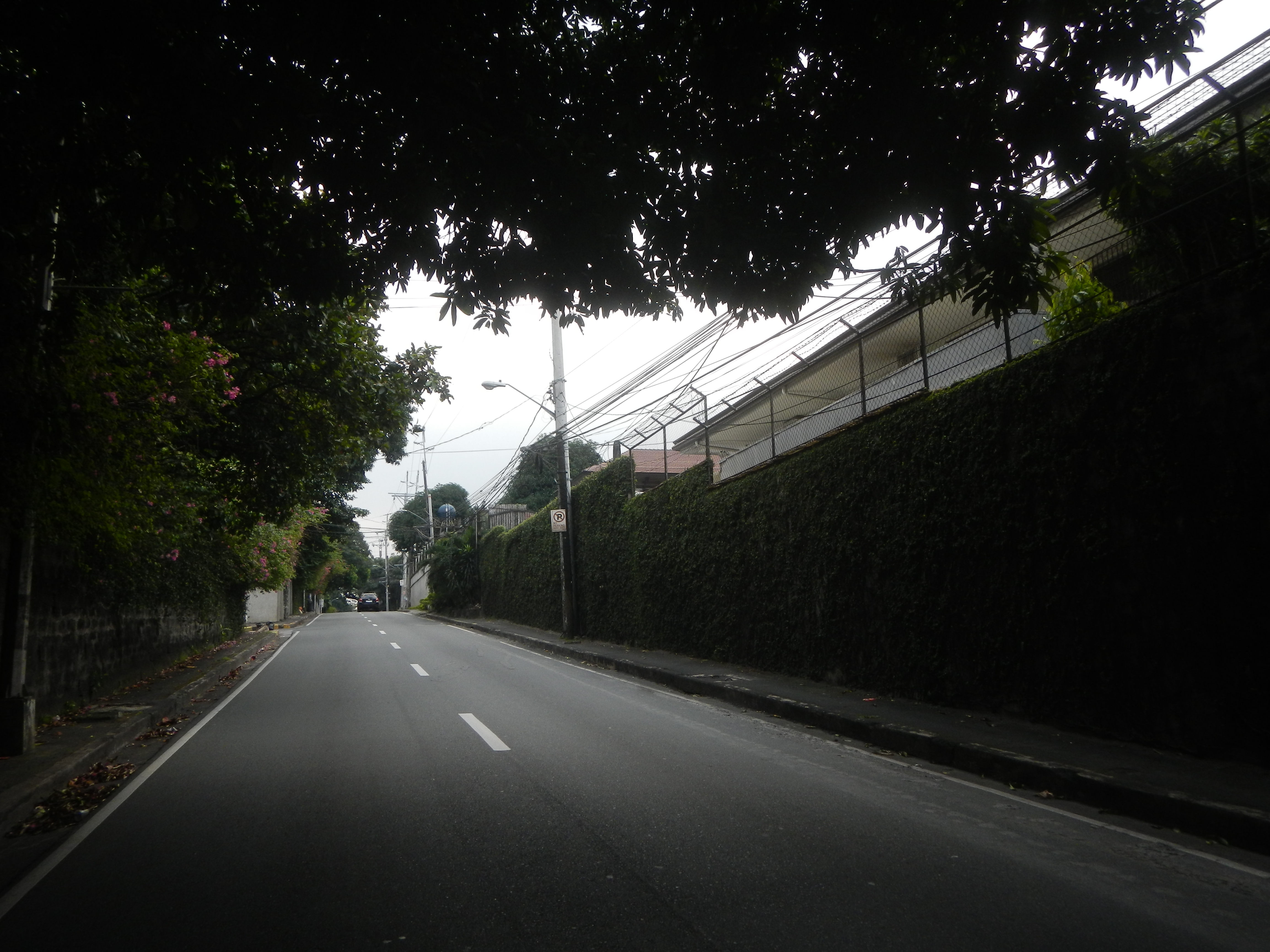 Balete Drive (E. Rodriguez, Sr. Avenue - Bouganvilla Street), Mariana, New Manila, Quezon City in front of Balete Drive Extension Balete Drive Haunted highway List of haunted locations in the Philippines Major roads in Metro Manila in the List of barangays of Metro Manila Legislative districts of Quezon City Districts 3, Barangays of Quezon City, Barangay Kristong Hari 14°37'28"N 121°1'31"E beside Mariana 14°37'1"N 121°2'13"E New Manila, Quezon City upon the List of rivers and estuaries in Metro Manila Diliman Creek from San Juan River (Metro Manila) Estuaries in Cubao, Quezon City along Aurora Boulevard (Note: Judge Florentino Floro, the owner, to repeat, Donor Florentino Floro of all these photos hereby donate gratuitously, freely and unconditionally all these photos to and for Wikimedia Commons, exclusively, for public use of the public domain, and again without any condition whatsoever).